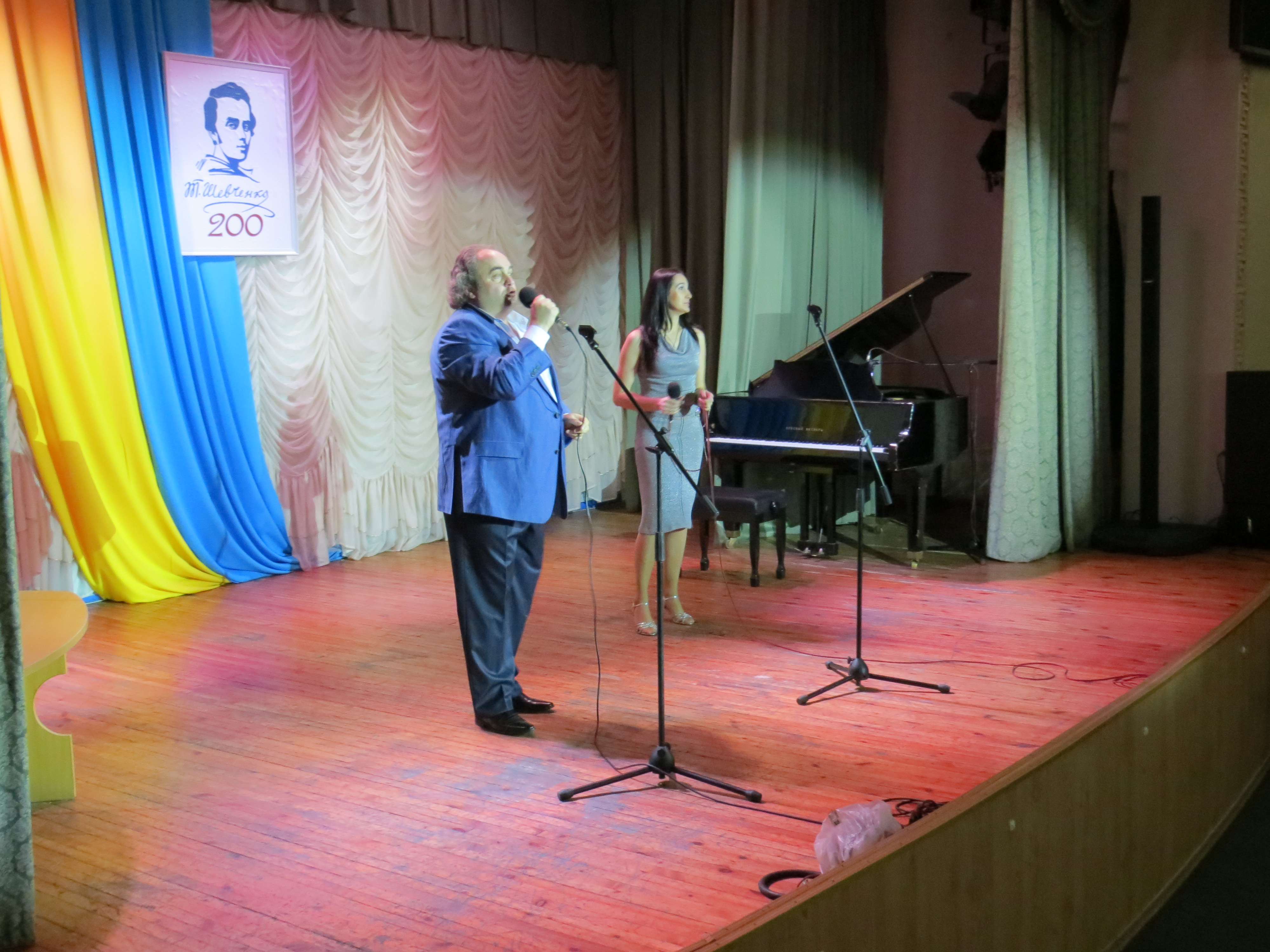 WikiConcert 02 2014 Kyiv